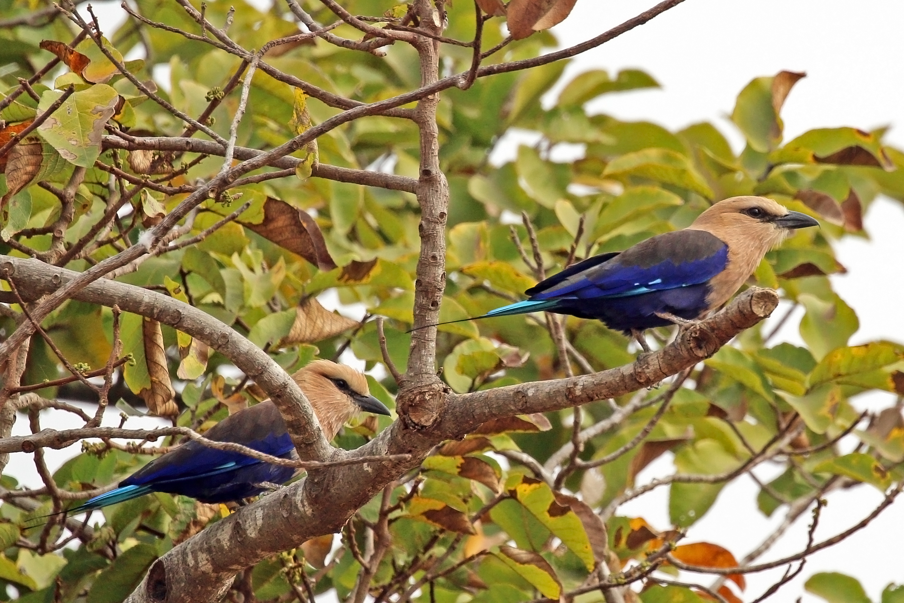 Blue-bellied rollers (Coracias cyanogaster) pair, The Gambia